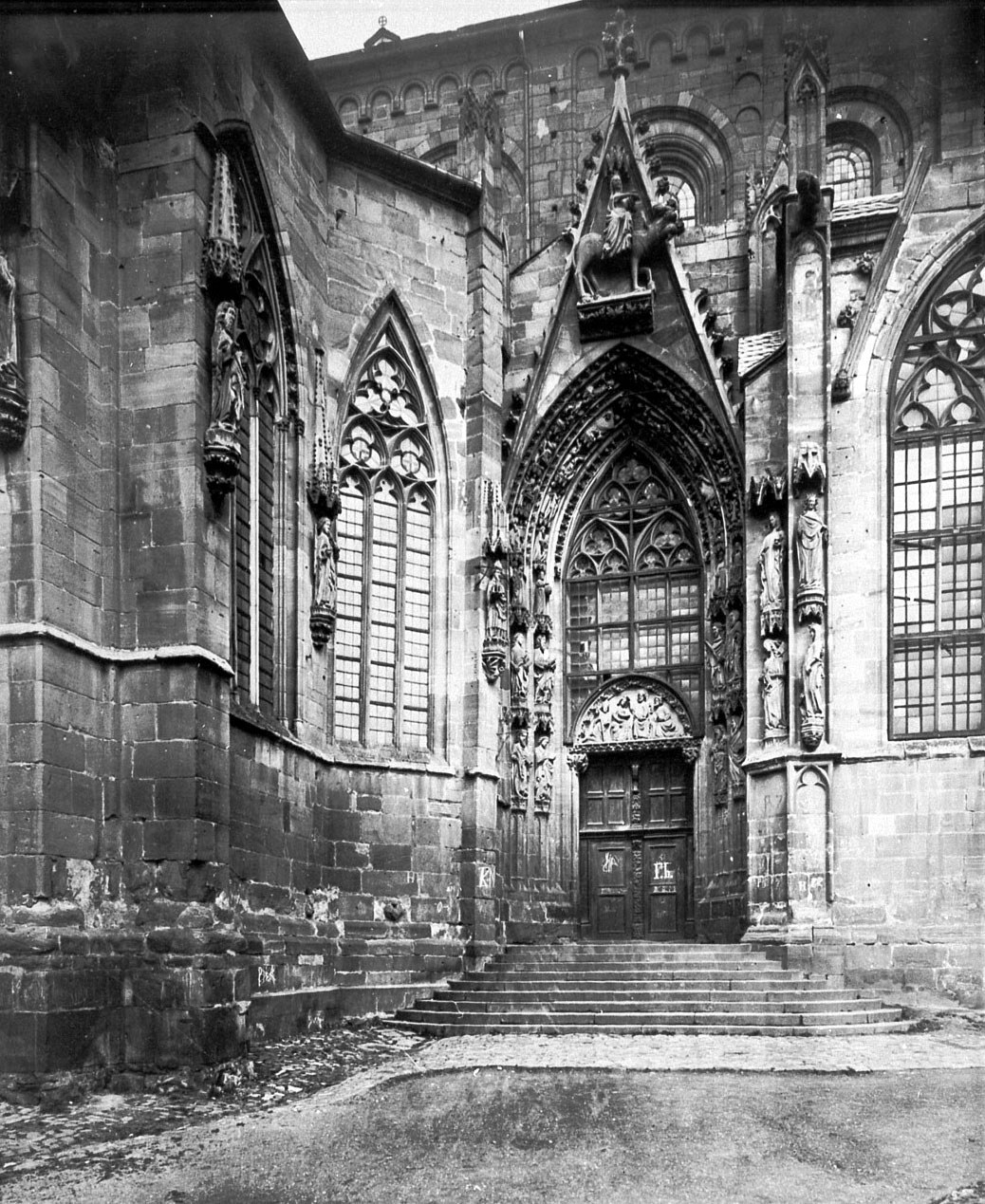 Cathedral of Worms, the south gate and the St. Nicolas Chapel at 1890